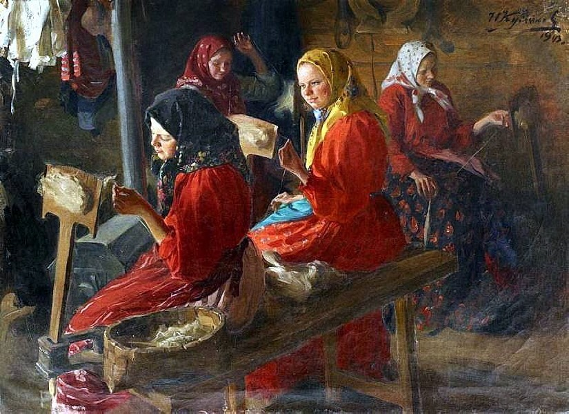 Ivan Kulikov (1875-1941). The Spinners. 1903